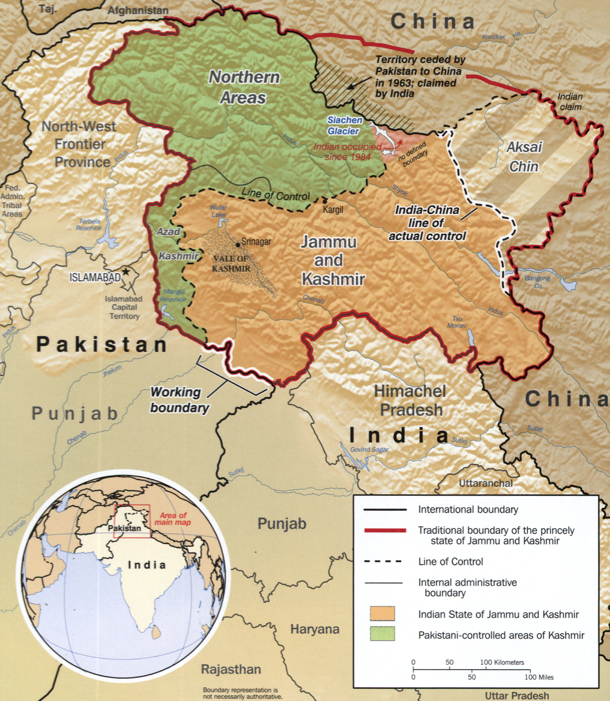 The disputed area of Kashmir. Notes "760279AI (R00744) 6-02." Relief shown by shading. Includes location map. Medium 1 map : col. ; 20 x 17 cm. Call Number G7653.J3F2 2002 .U5 Control Number 2002626371 Digital ID g7653j ct000803